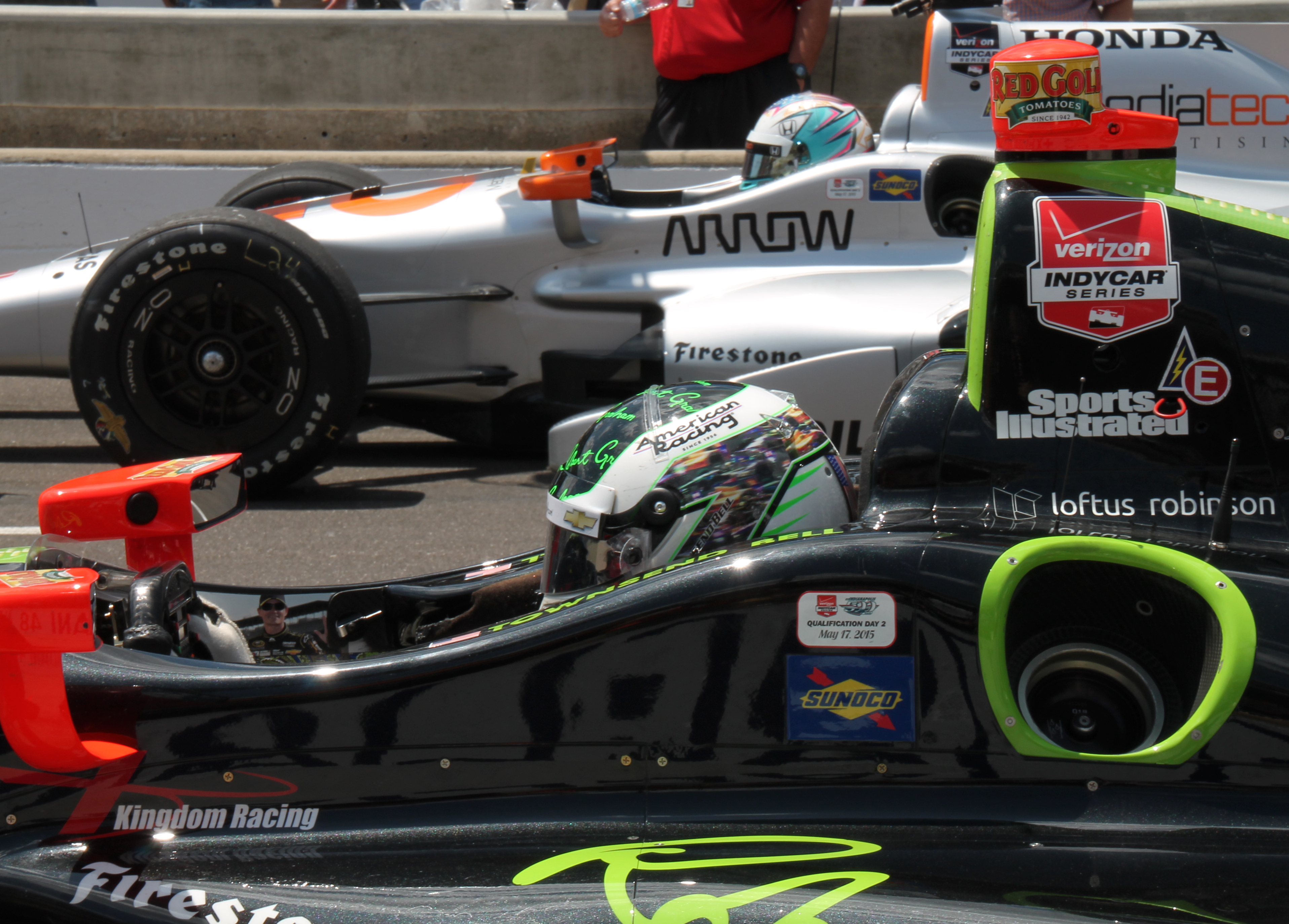 Townsend Bell participating in the Carb Day 2015 Pit Stop Challenge at the Indianapolis Motor Speedway